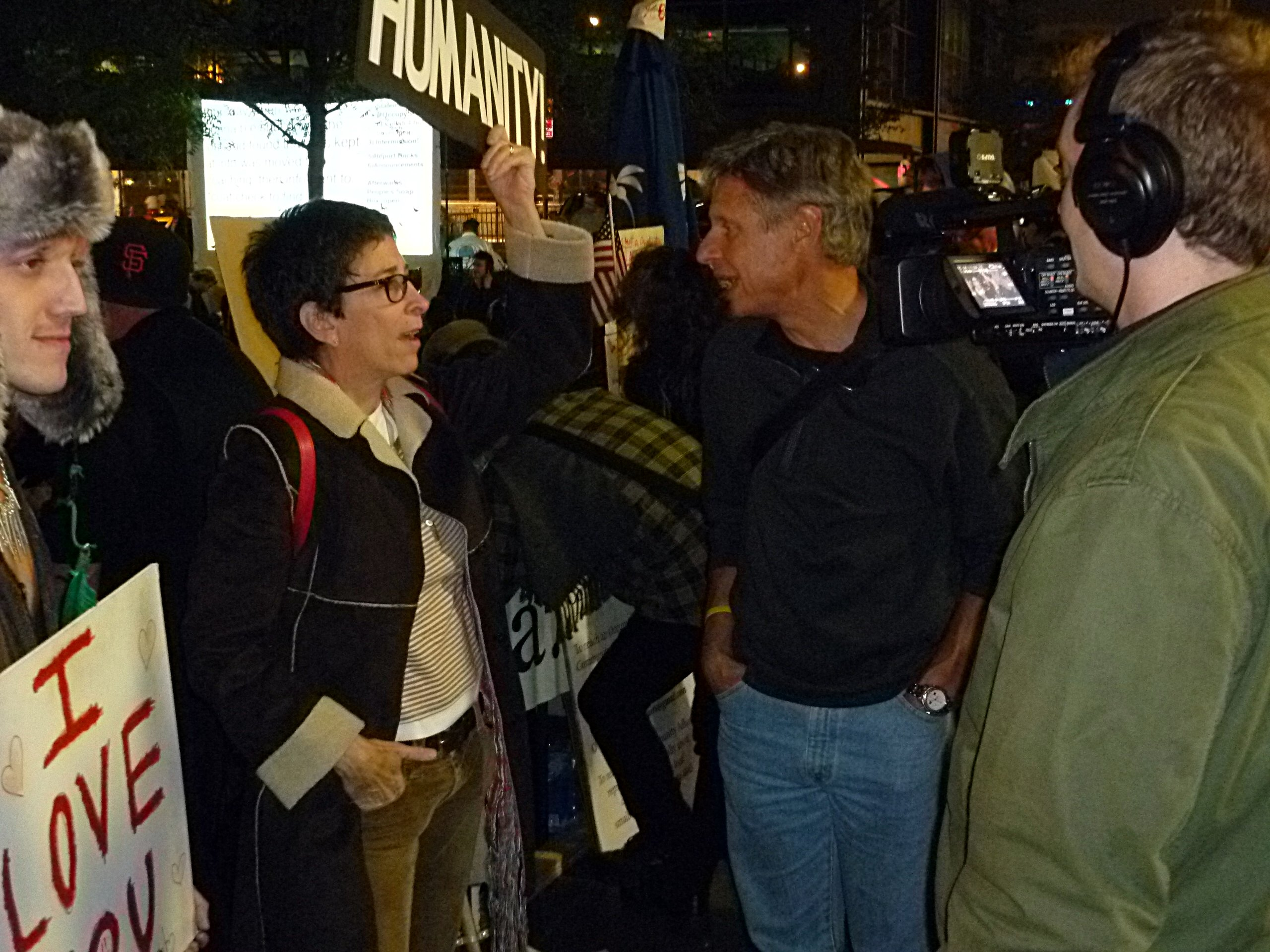 Gary Johnson visits Zuccotti Park during the OWS protests.